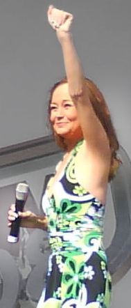 Sonia Evans. (Note; this cropped version of the image was created with thumbnail-sized use in mind)